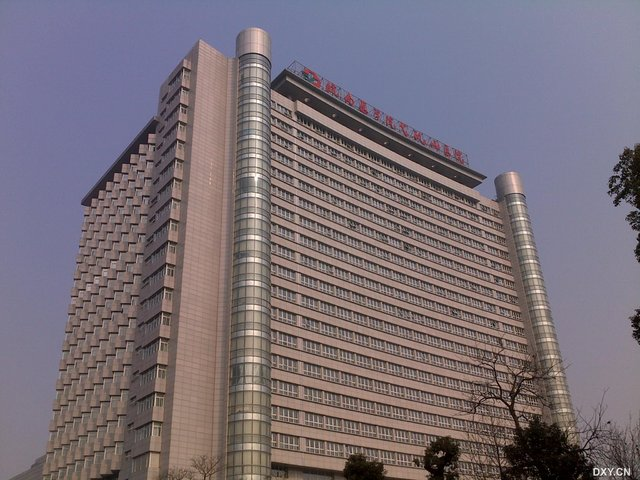 Inpatient building